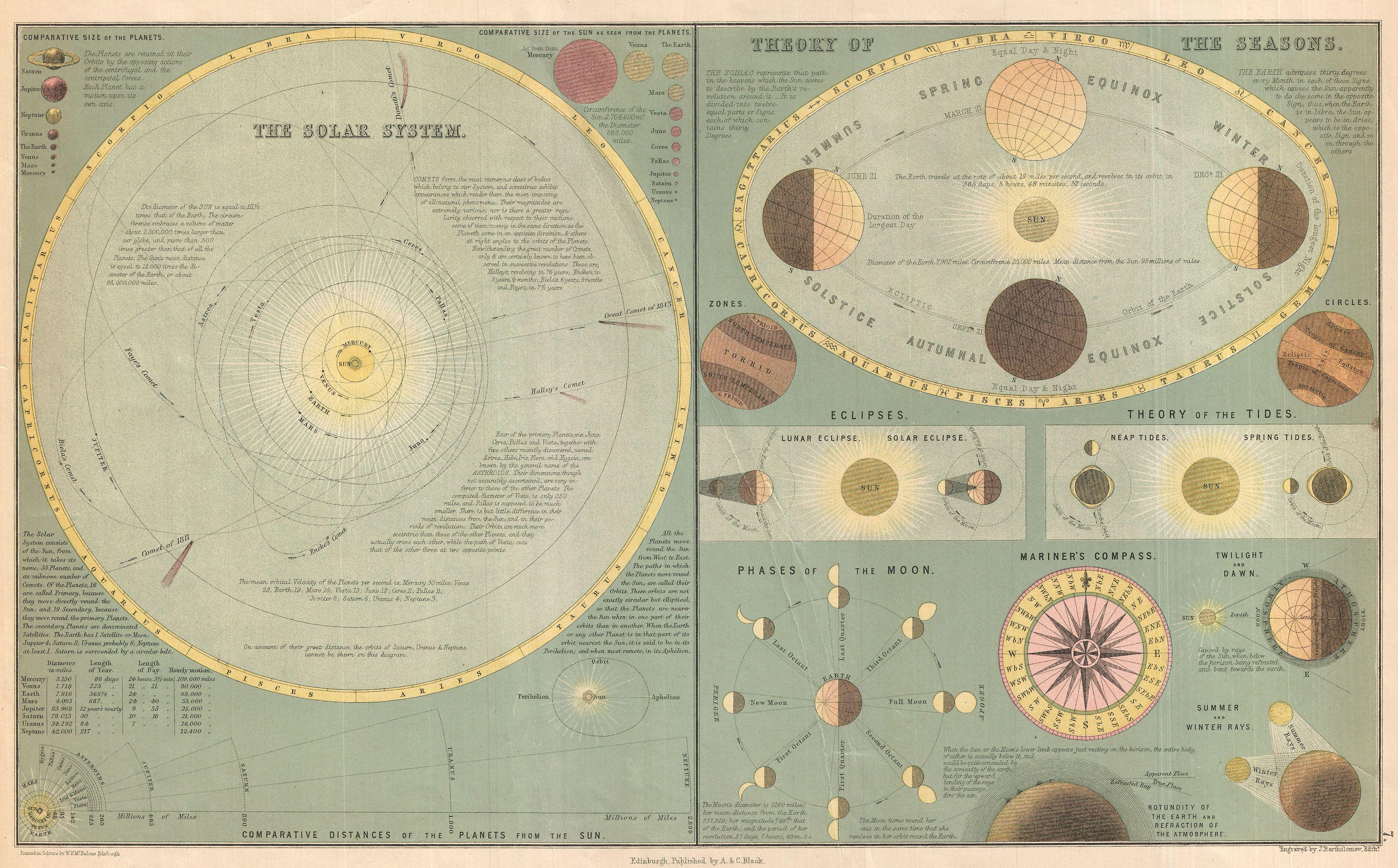 This is Adam and Charles Black's 1873 chart of the Solar System and the Theory of the Seasons. The Black brothers introduced this map in the 1850s and it went through a series of revisions and editions well into the 1880s. This example, from 1873, is one of the first editions of this map to make use of chromolithographic printing techniques - previous editions were black and white. The left hand side of the chart shows the Solar System with extensive explanatory text. The right hand side of the map offers a number of charts showing how the rotation of the earth around the sun affects the seasons. Also offers charts on the tides, eclipses, the phases of the moon, summer and winder, the atmosphere, and a mariners Compass. Engraved by J. Bartholomew and printed by W. H. M Earlane, both of Edinburgh, for the publishing firm of Adam and Charles Black. Issued as plate no. 7 in the 1873 edition of Black's General Atlas of the World .